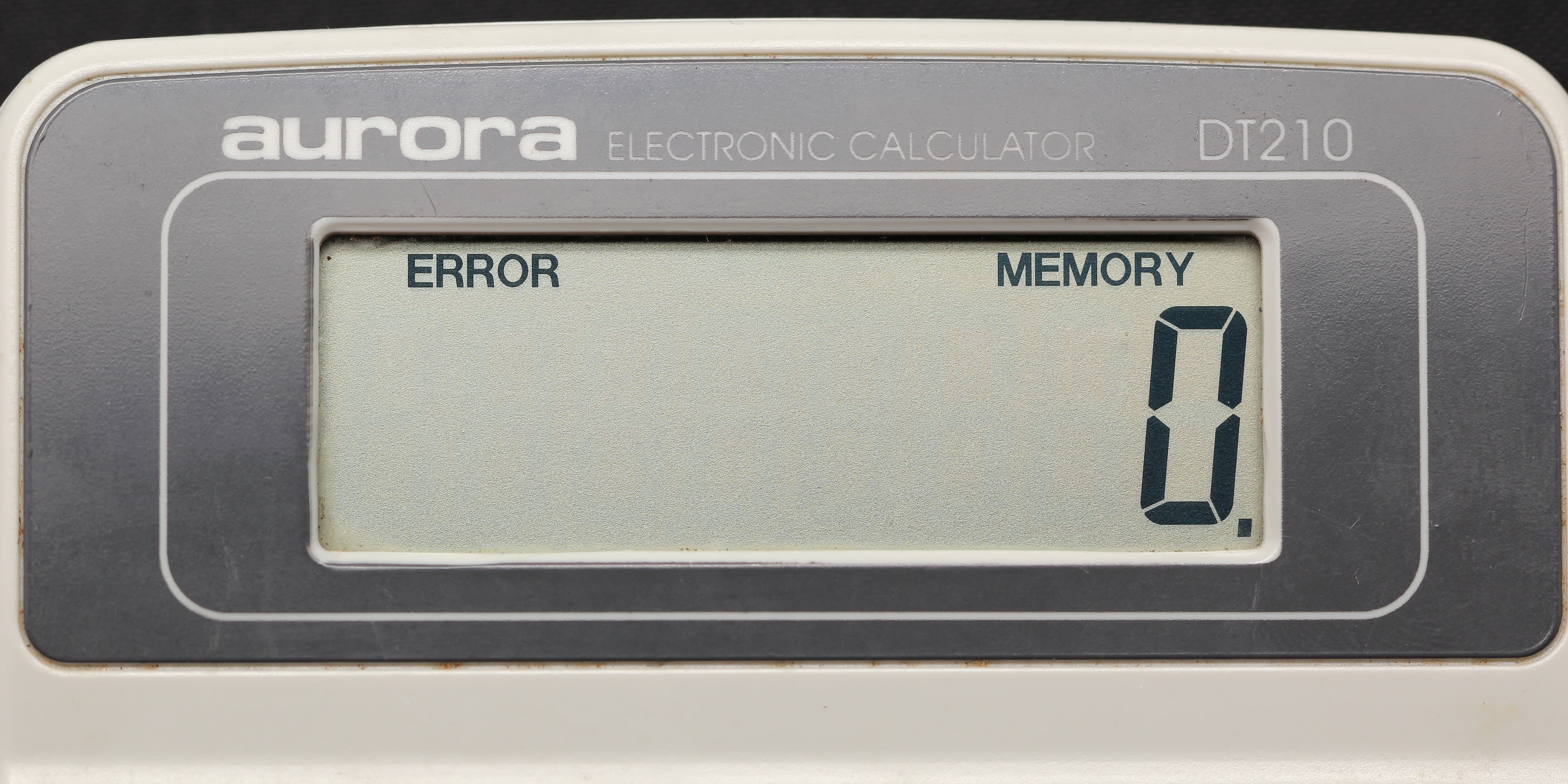 electronic calculator Spacious keypad for easy entry Large seven-segment 8 digit fixed angle display Durable hard keys 4 key memory and 4 constants +/–, % and square root keys Solar power with battery backup Rubber feet (For desk-top use) Manual and Auto power off